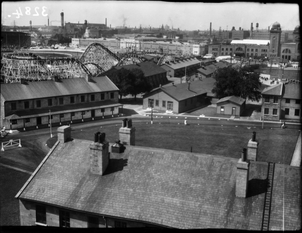 An aerial view from the south showing the close proximity of the Ex and Barracks buildings.